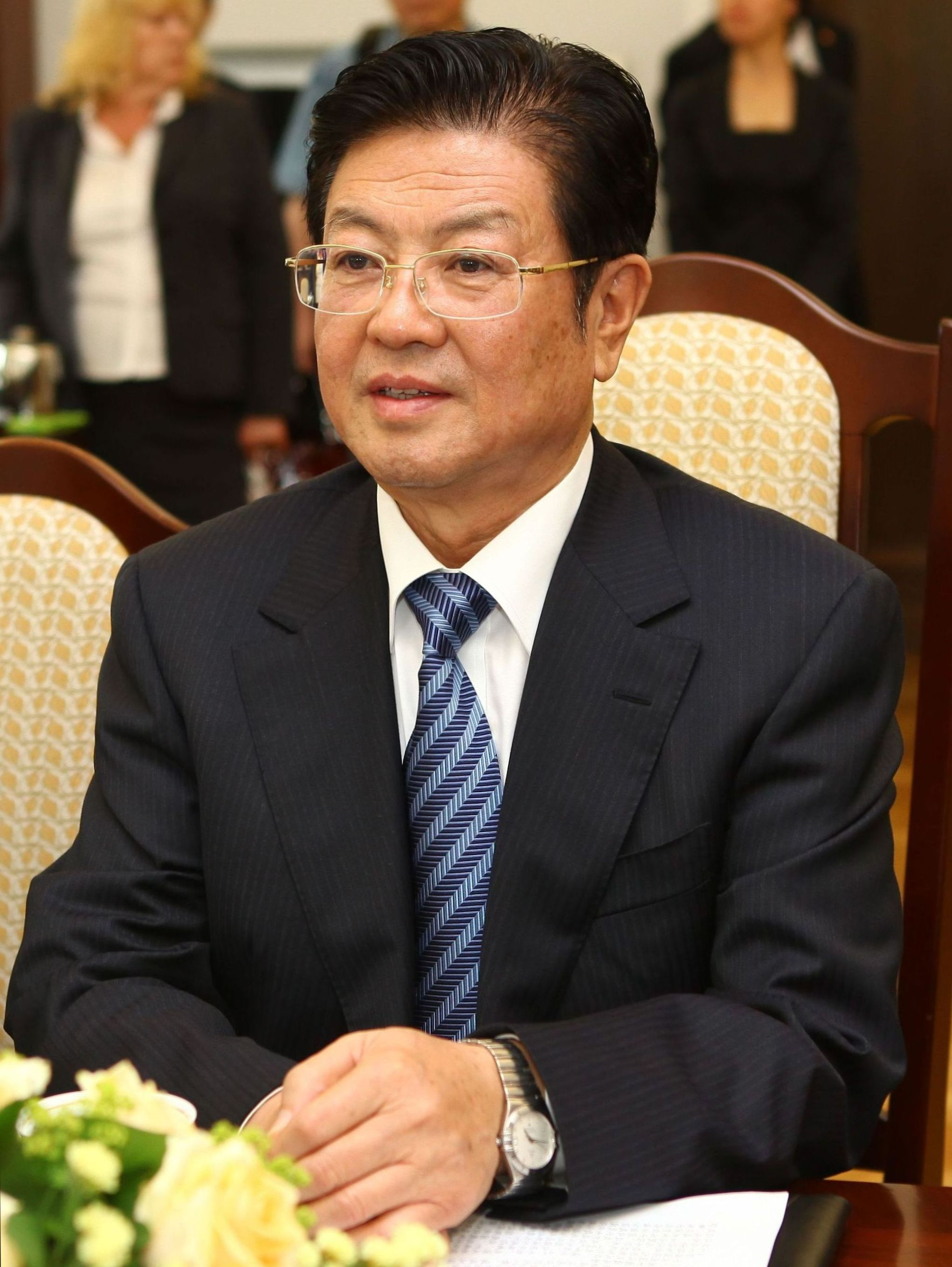 Vice-Chairman of the 11th Standing Committee of the National People's Congress Wang Zhaoguo in the Polish Senate